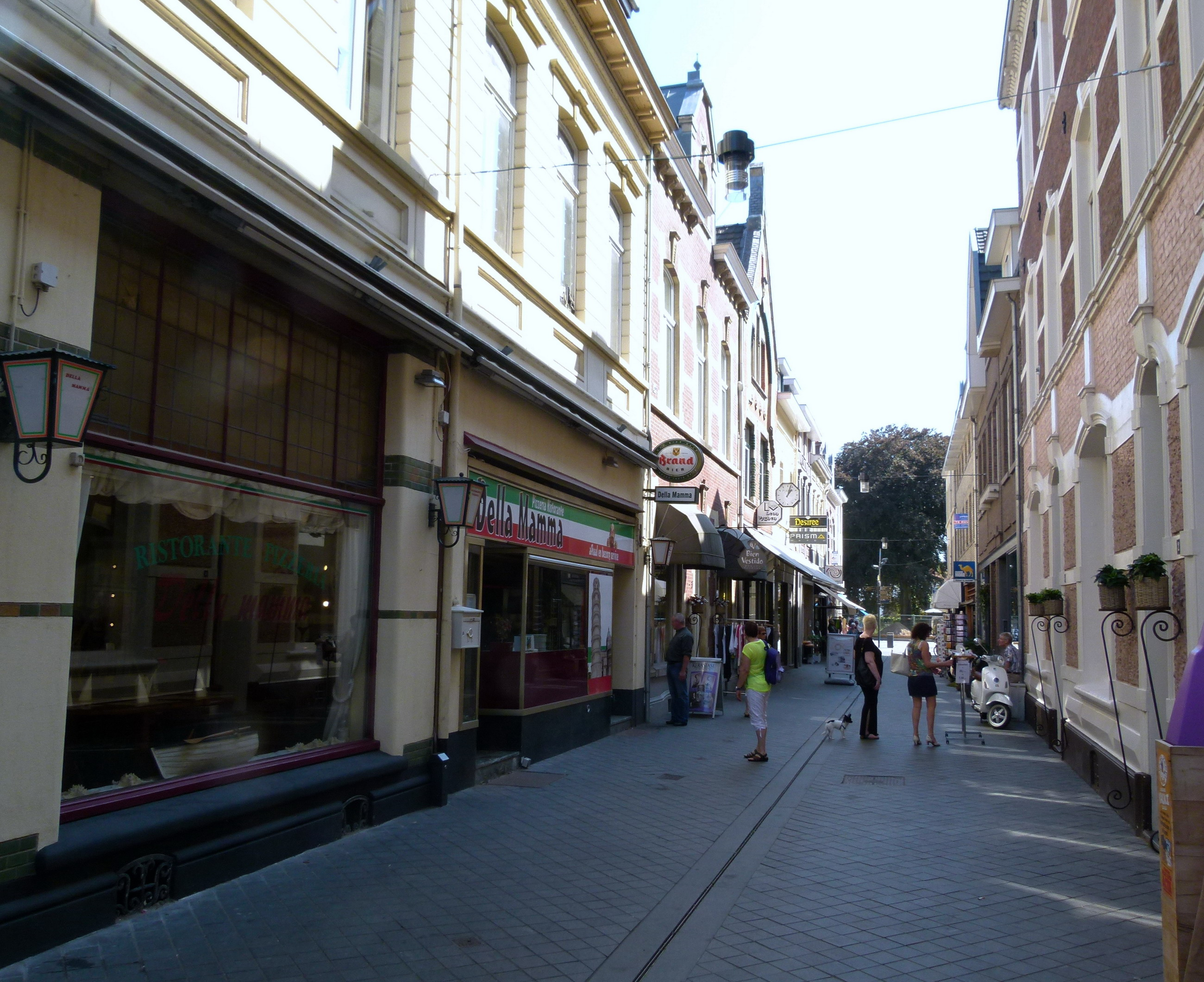 Valkenburg, Limburg, the Netherlands. View of pedestrian street Passage in the center of Valkenburg.